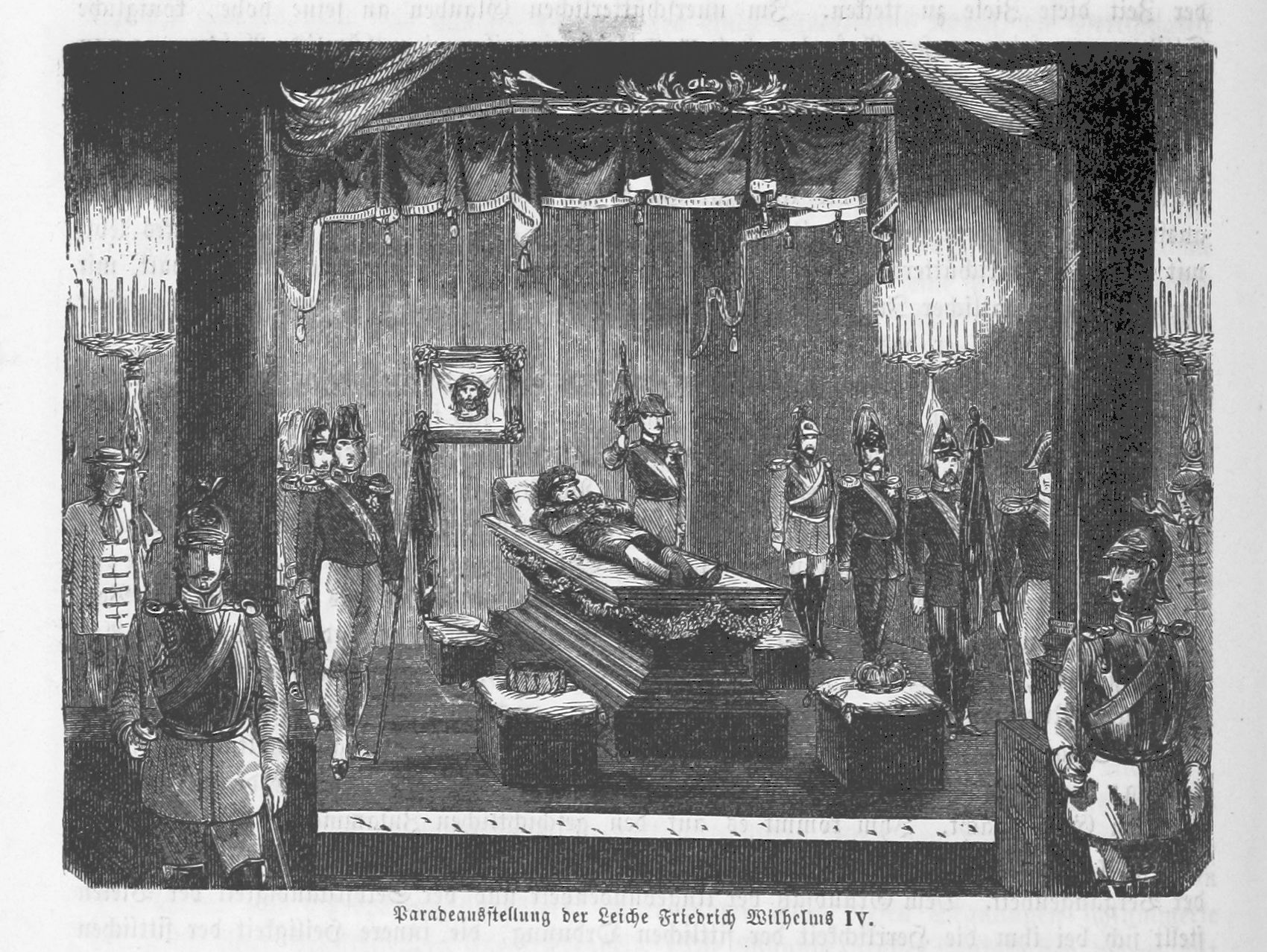 Image extracted from page 54 of Unser Vaterland. Bilder aus der Deutschen Geschichte, Cultur und Heimathkunde. Herausgegeben von Dr. H. Pröhle, etc', by PROEHLE, Heinrich. Original held and digitised by the British Library. Copied from Flickr. Note: The colours, contrast and appearance of these illustrations are unlikely to be true to life. They are derived from scanned images that have been enhanced for machine interpretation and have been altered from their originals.